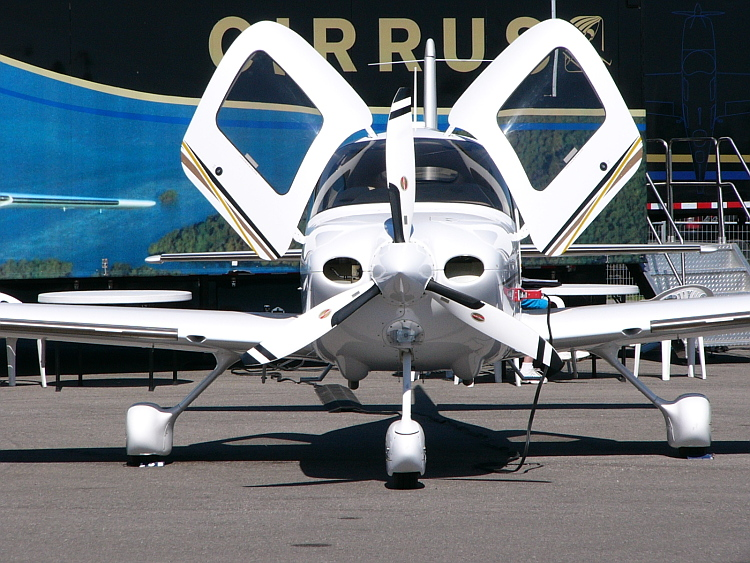 I took this photo of a Cirrus SR-22 G2 (N558CD) at the Canadian Aviation Expo in 2004.